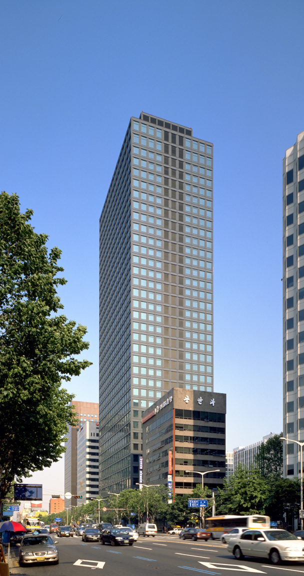 Seoul, SK Corporation Building, 1986-1999